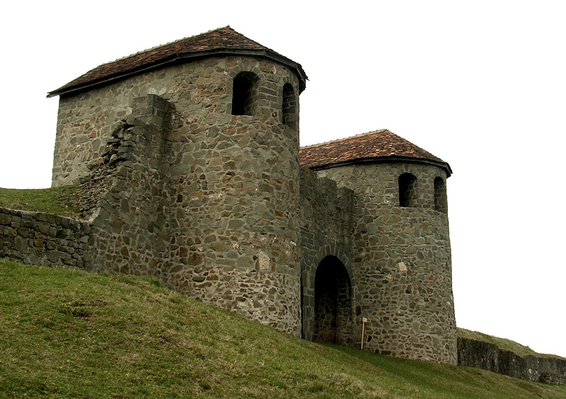 Porta Praetoria at castra Porolissum, view from the side (8 km from Zalău, Romania).